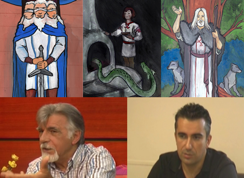 Screens from documentary "Stari Sloveni - verovanja i običaji"